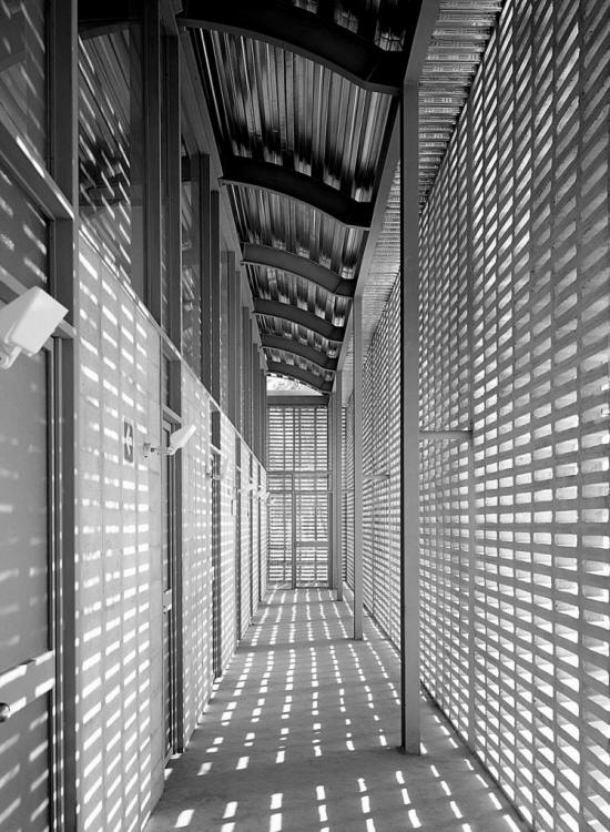 El Modulón, Community Centre, Mexico City, by Luis Vicente Flores, 1996.